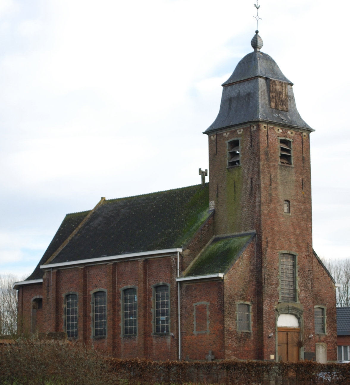 Church of Saint Peter at Leerbeek (commune of Gooik, Belgium). Nikon D60 f=48mm f/5.6 at 1/160s ISO 200. Processed using Nikon ViewNX 1.0.3 and Adobe Photoshop 4.0.